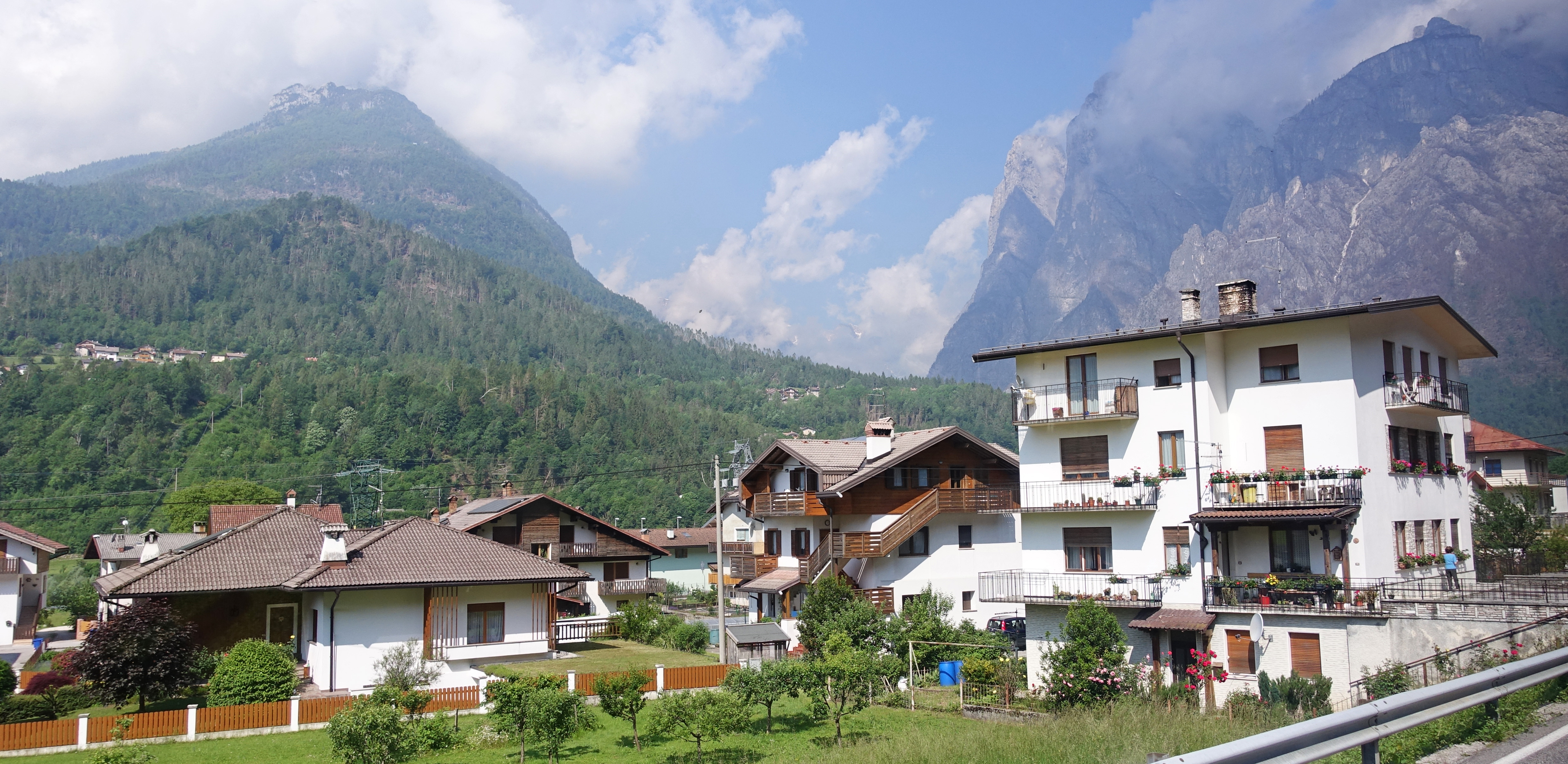 Agordo, Italy.